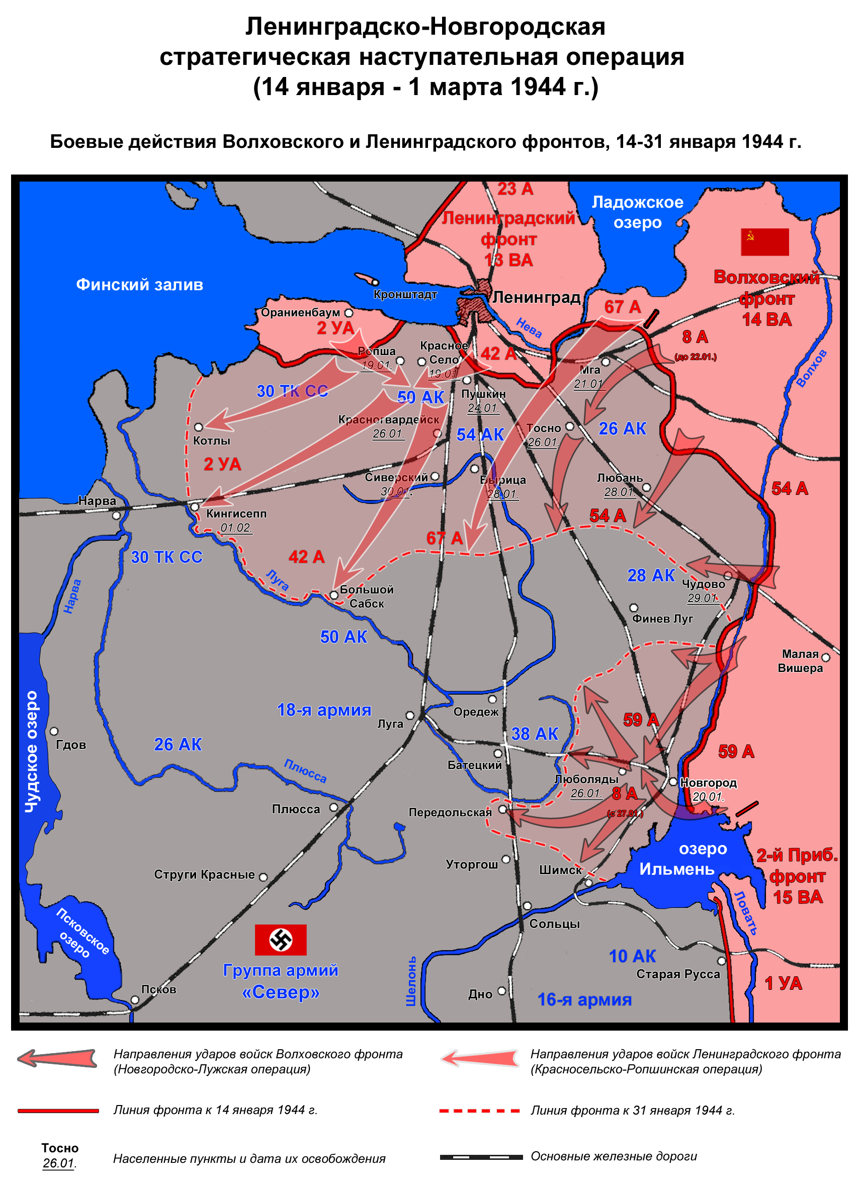 Leningrad–Novgorod Offensive (1944). The Offensive of the Leningrad and Volkhov fronts, 14-31 January 1944.